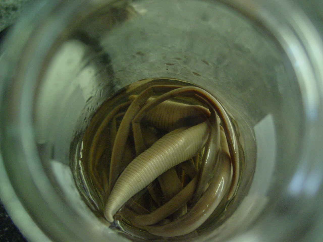 Annelida Hirudinea Leech 2 Paul.Paquette 16:31, 18 December 2005 (UTC)